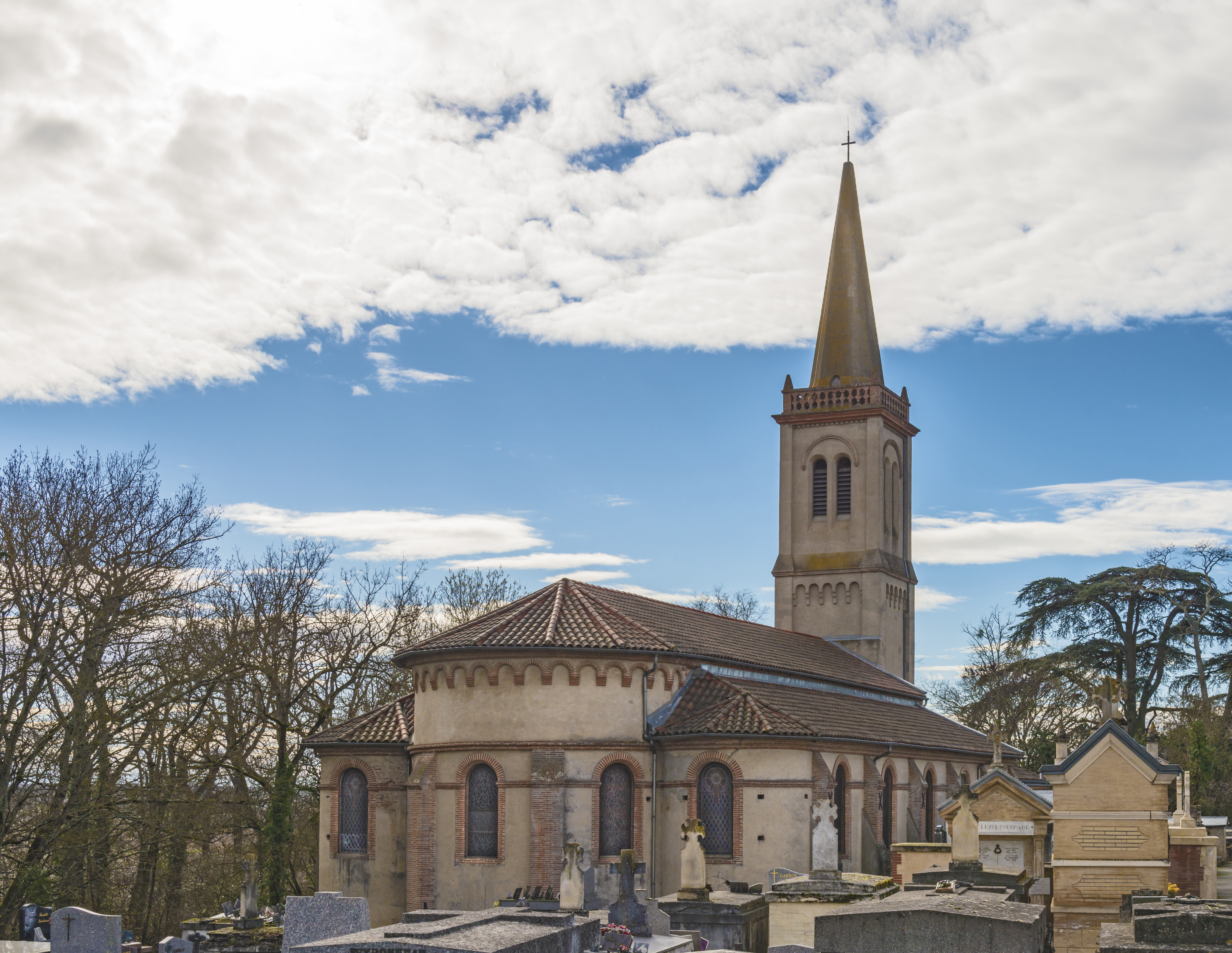 Apse of the church Saint-Barthélemy from Launaguet.